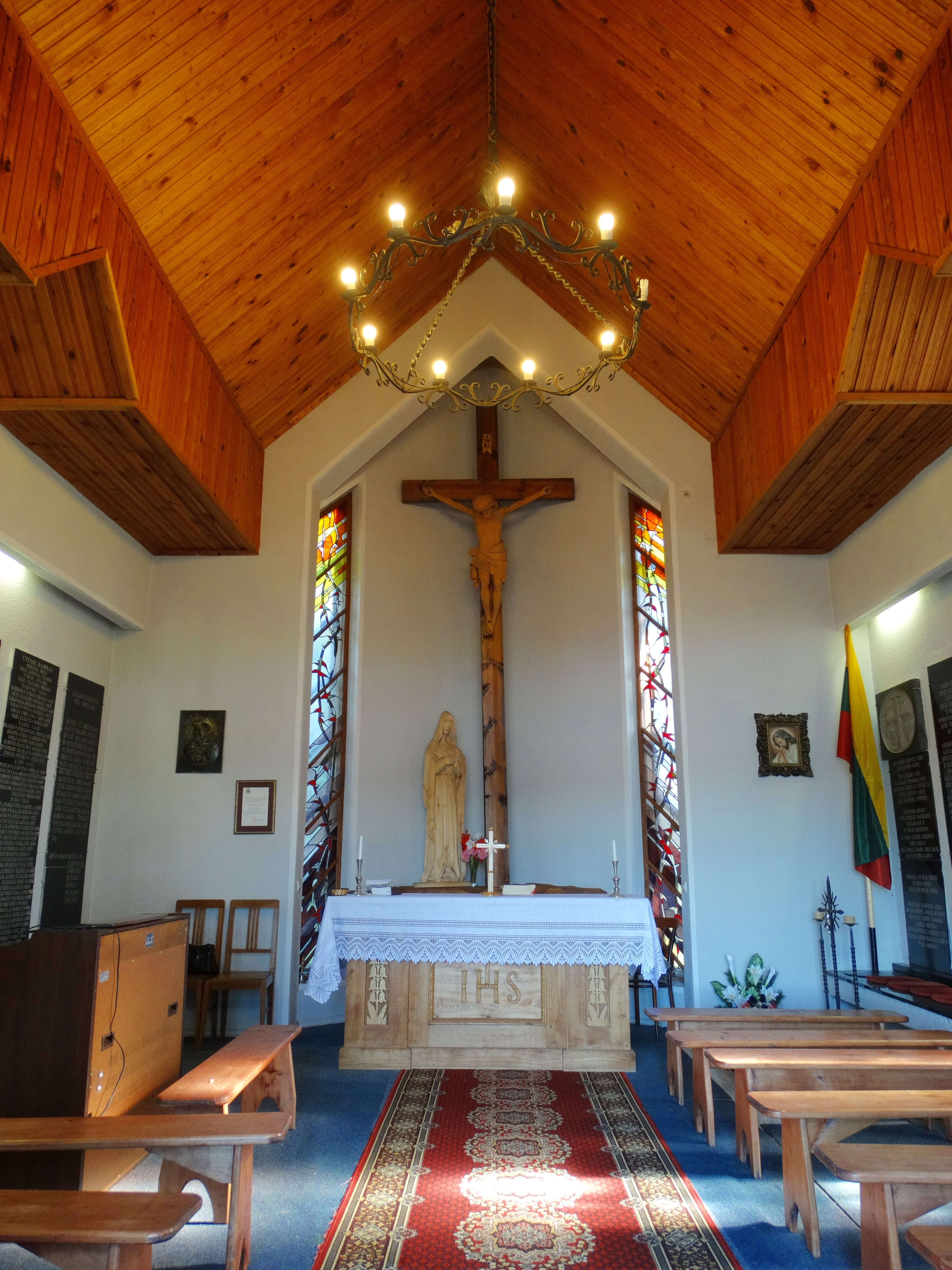 Chapel of St. Virgin Mary, Utena, Lithuania